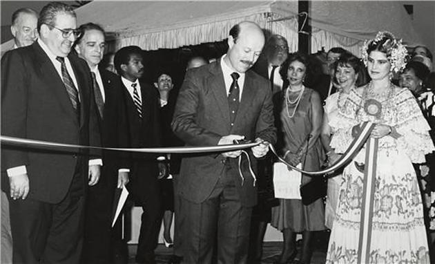 Glenn Tupper cuts the ribbon to officially open the Smithsonian Tropical Research Institute's Earl S. Tupper Center, named in honor of his father, in Panama City, Panama. The inauguration ceremony for the new center featured a speech by the president of the Republic of Panama, Guillermo Endara Galimani, at left. Behind the present are Secretary Adams and STRI Director Ira Rubinoff. STRI Secretary Monica Alvarado, in traditional Panama dress, holds the ribbon, at right.